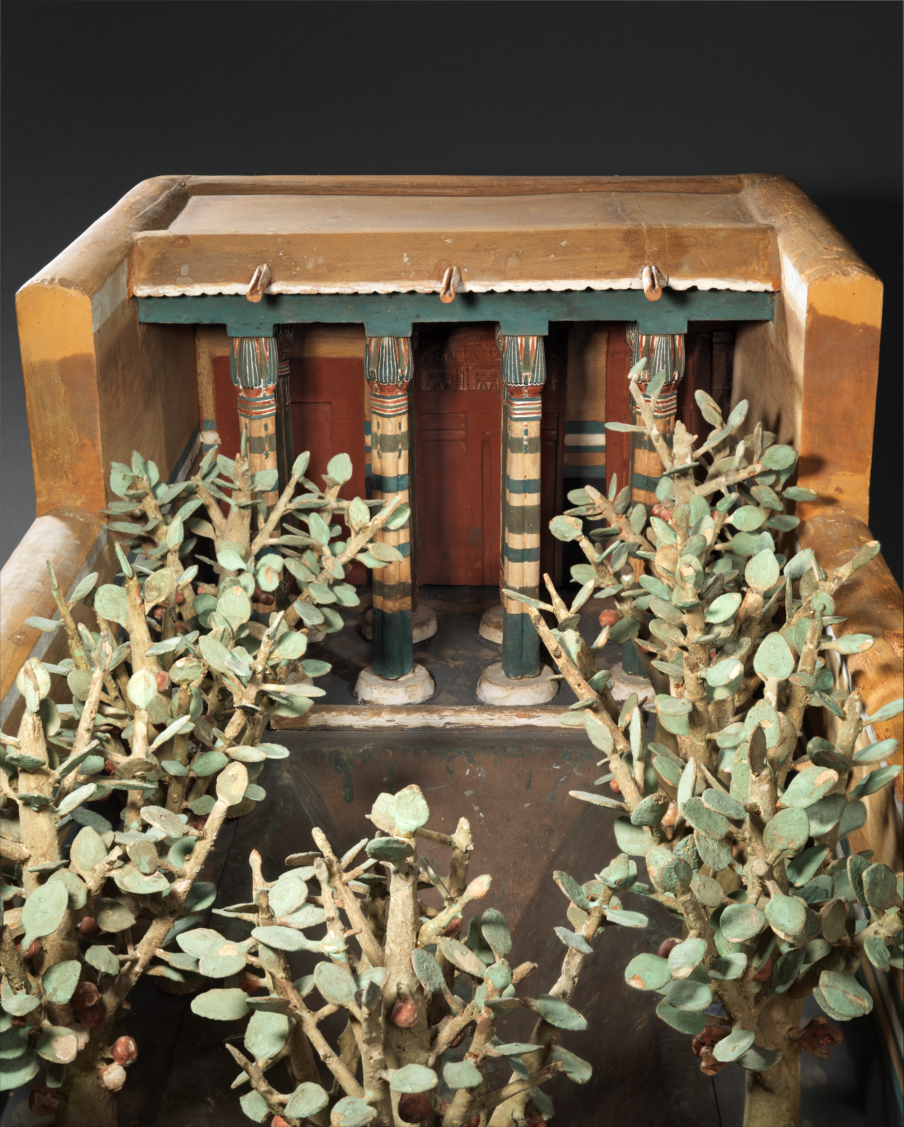 Garden, Meketre